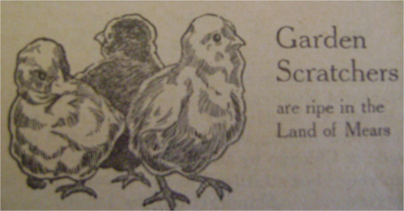 Gardens Scratchers sketch on front cover of newspaper